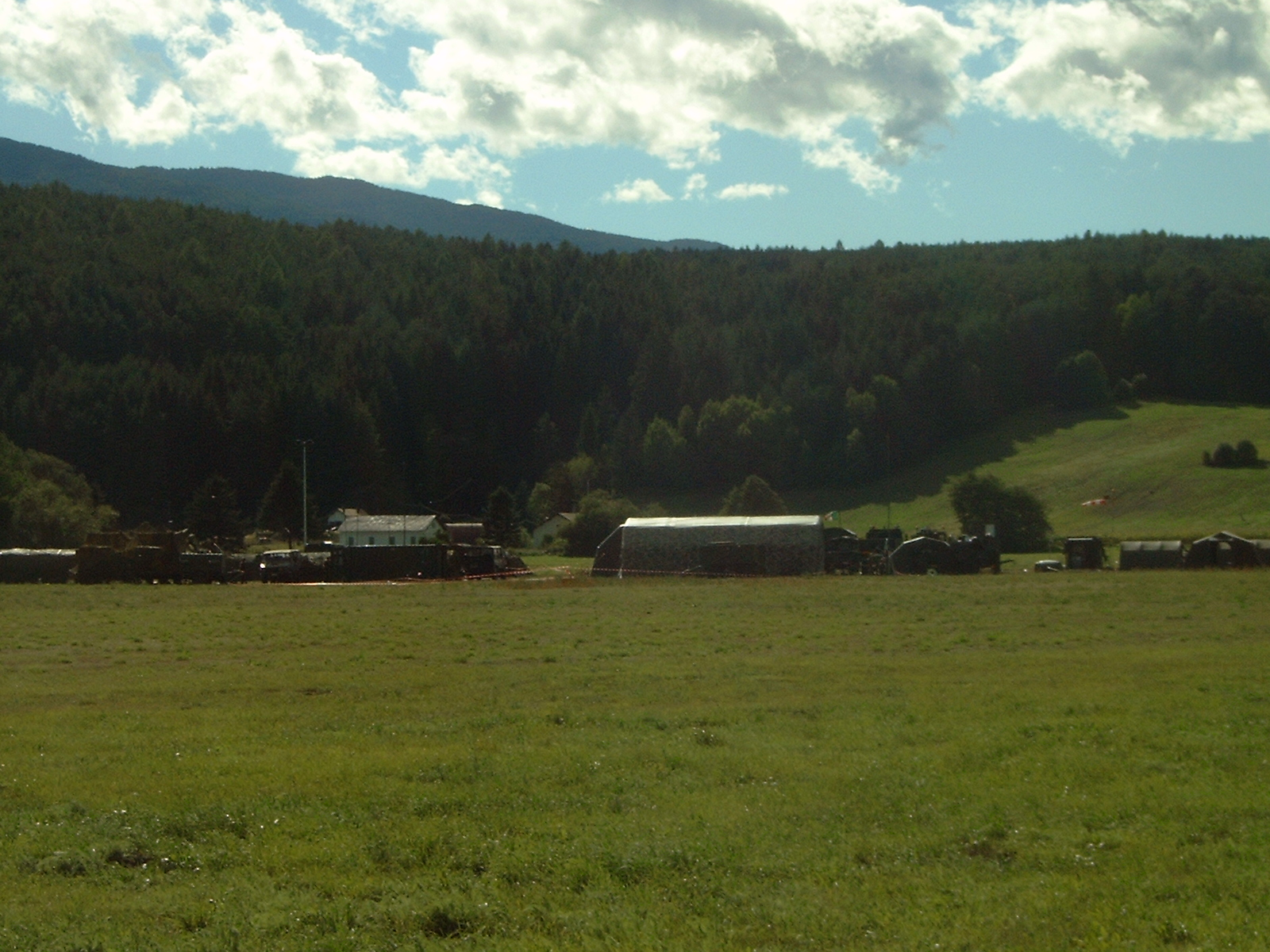 Barracks and tents in St.Georgen (Bruneck, South-Tyrol, Italy) during army drill